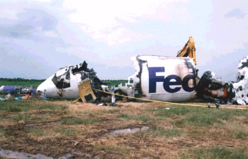 Fedex ExpressFlight 1478（N497FE）wreckage